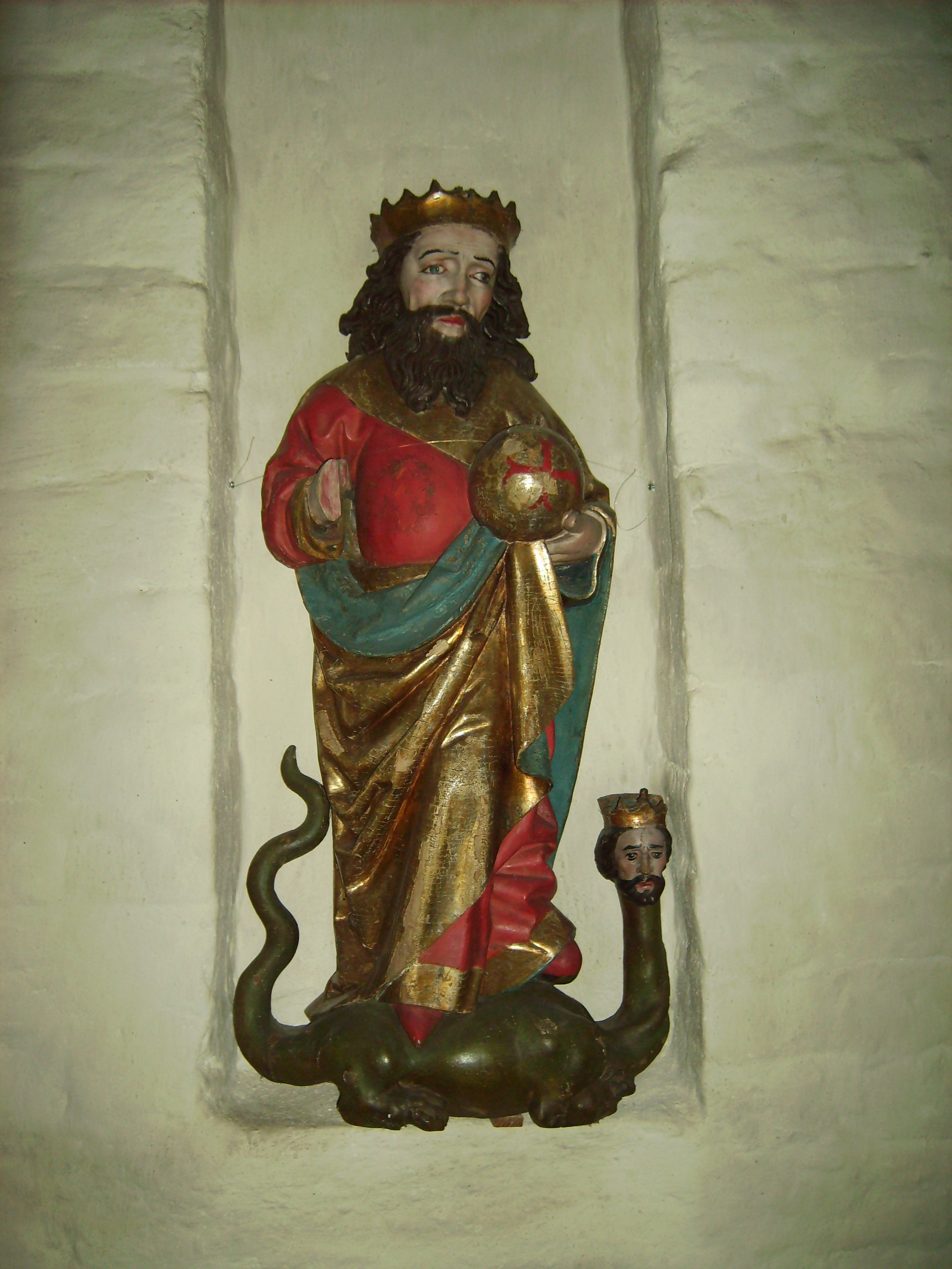 A statue of Olaf II of Norway in the medieval church in Korpo, Finland